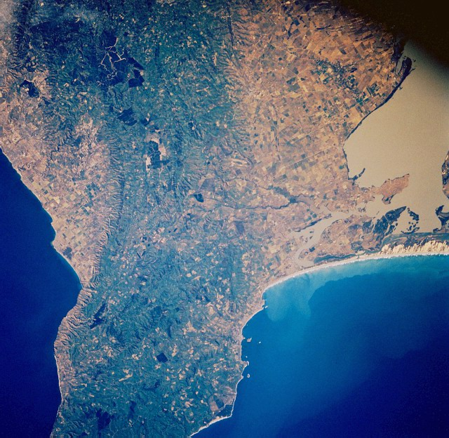 Fleurieu Peninsula, South Australia, Australia - November 1985 from space